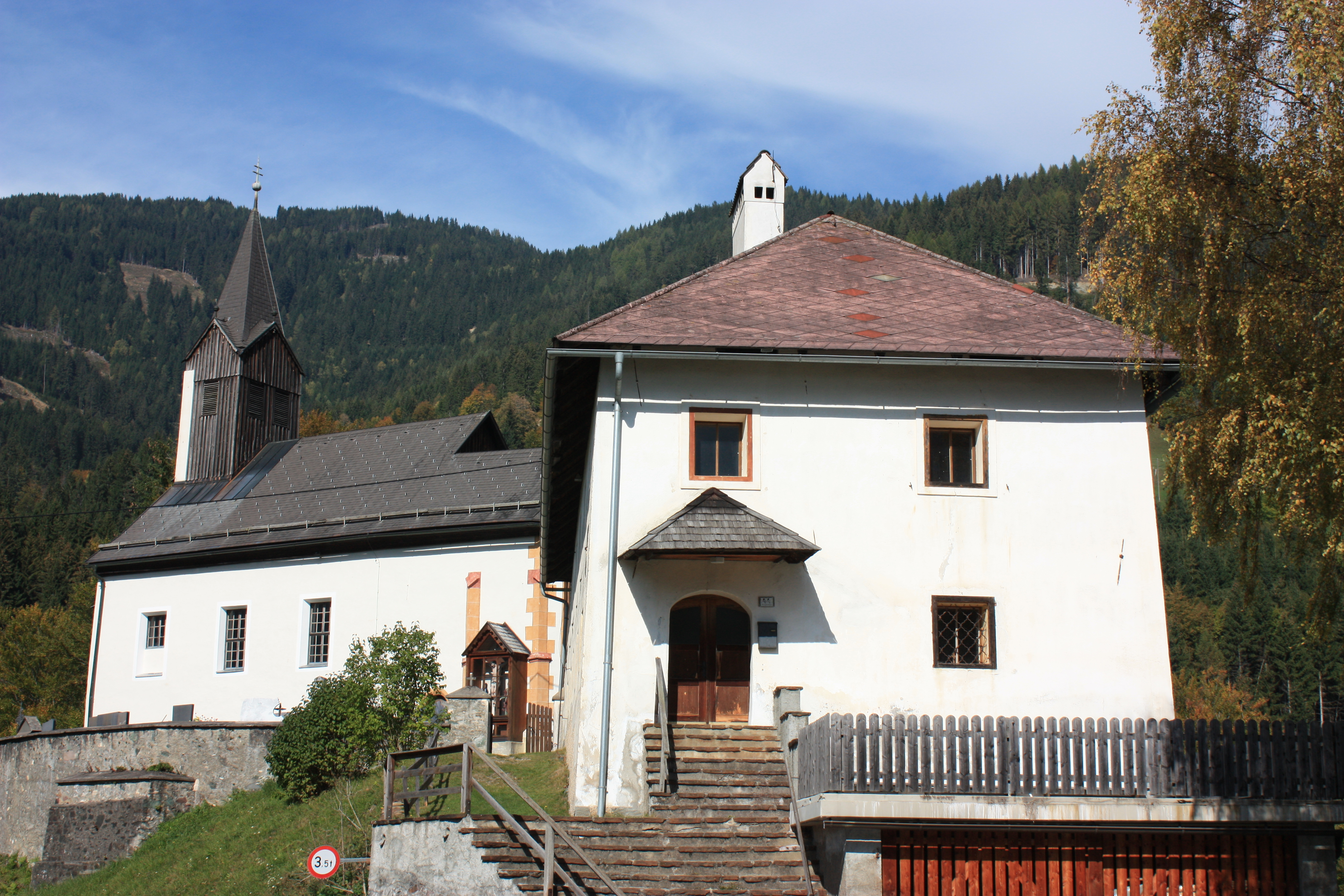 Parish church Saint Niklaus, also known as "Bichlkapelle", with former cloister Locality: Stockenboi Community:Stockenboi